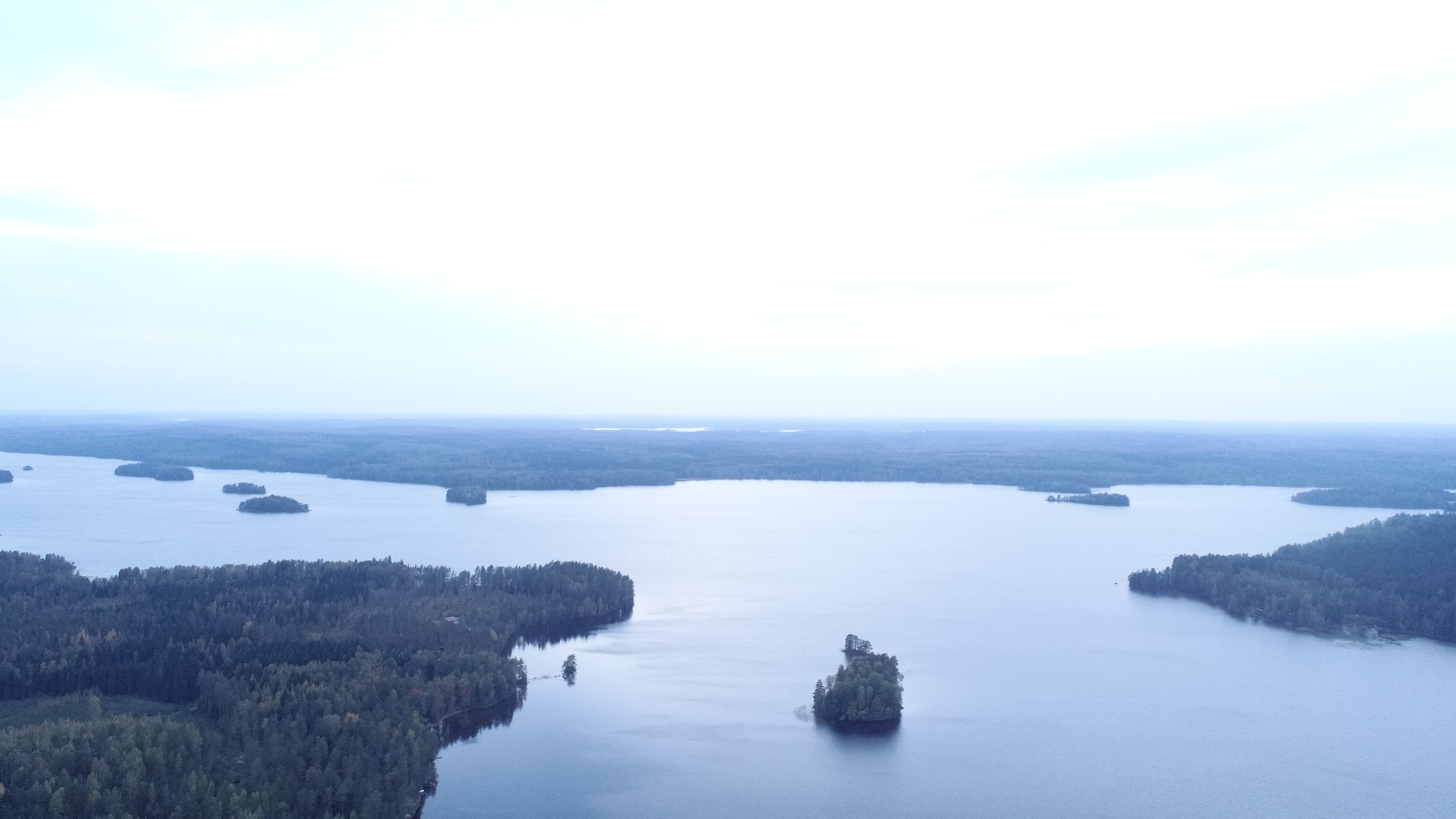 The Lahnavesi lake